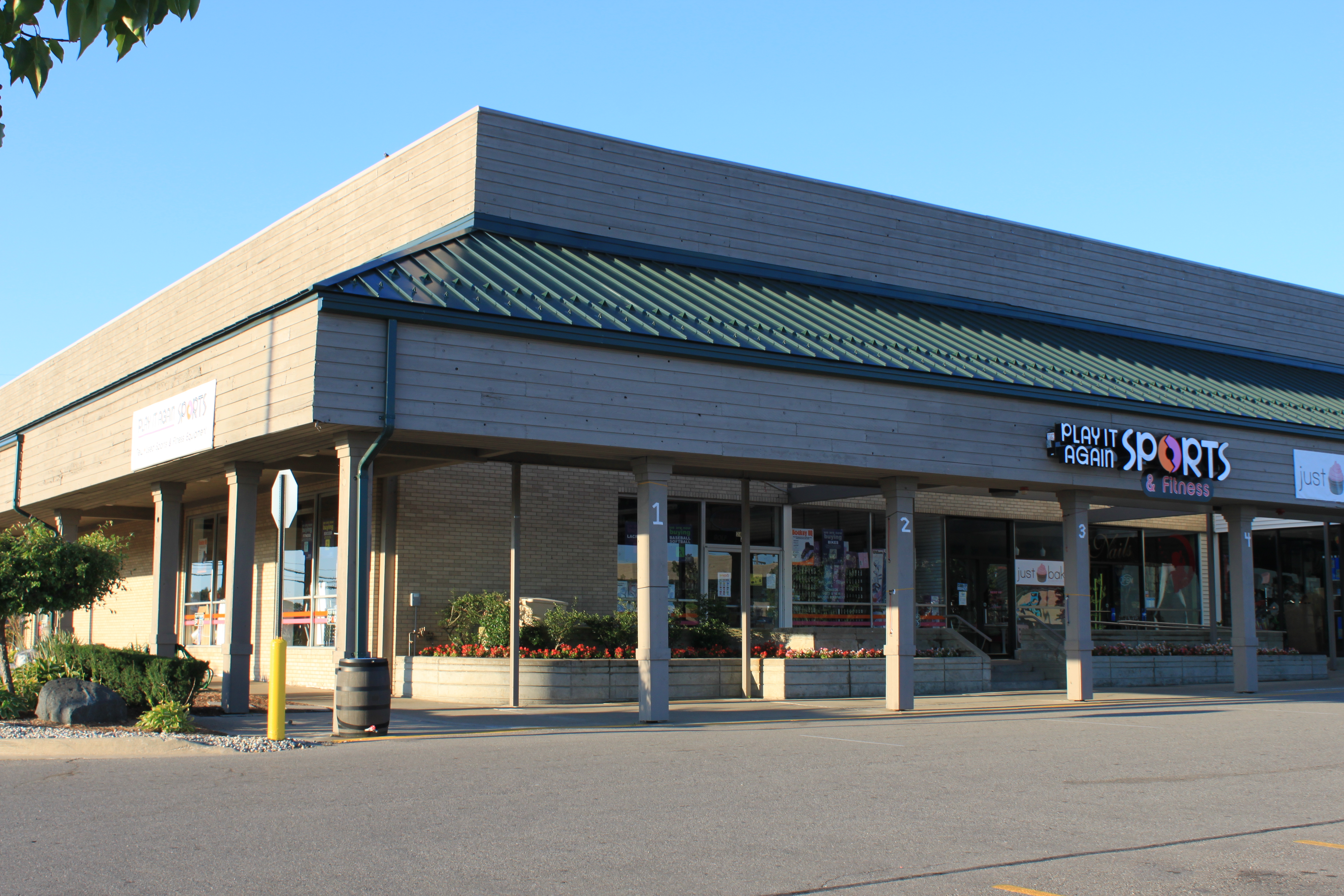 Play it Again Sports store, Westgate Shopping Center, 2461 West Stadium Boulevard, Ann Arbor, Michigan